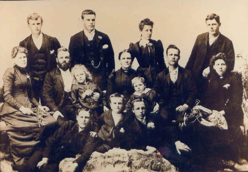 Edward Metcalf Smith's family. Back row: Samuel James, William Joseph, Elizabeth Jane, John Charles Middle row: Anna Maria, EMS and Daisy, MaryAnn and Herbert, Edward Nicholas, Emma Sarah Front row: Thomas Percy, Leonard Lichfield, Sydney George